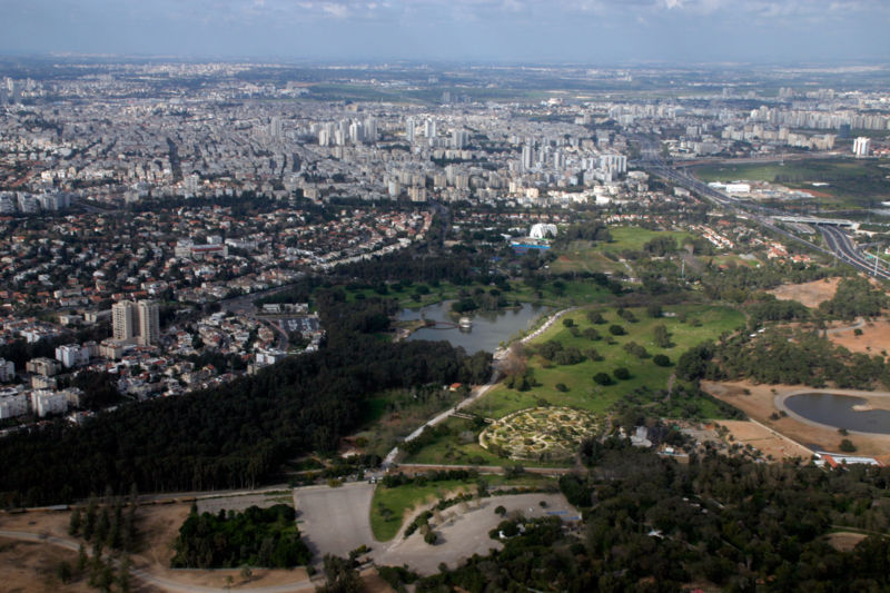 Ramat Gan an image of the national park in ramat-gan, israel. taken by he:משתמש:Antichrist מקור